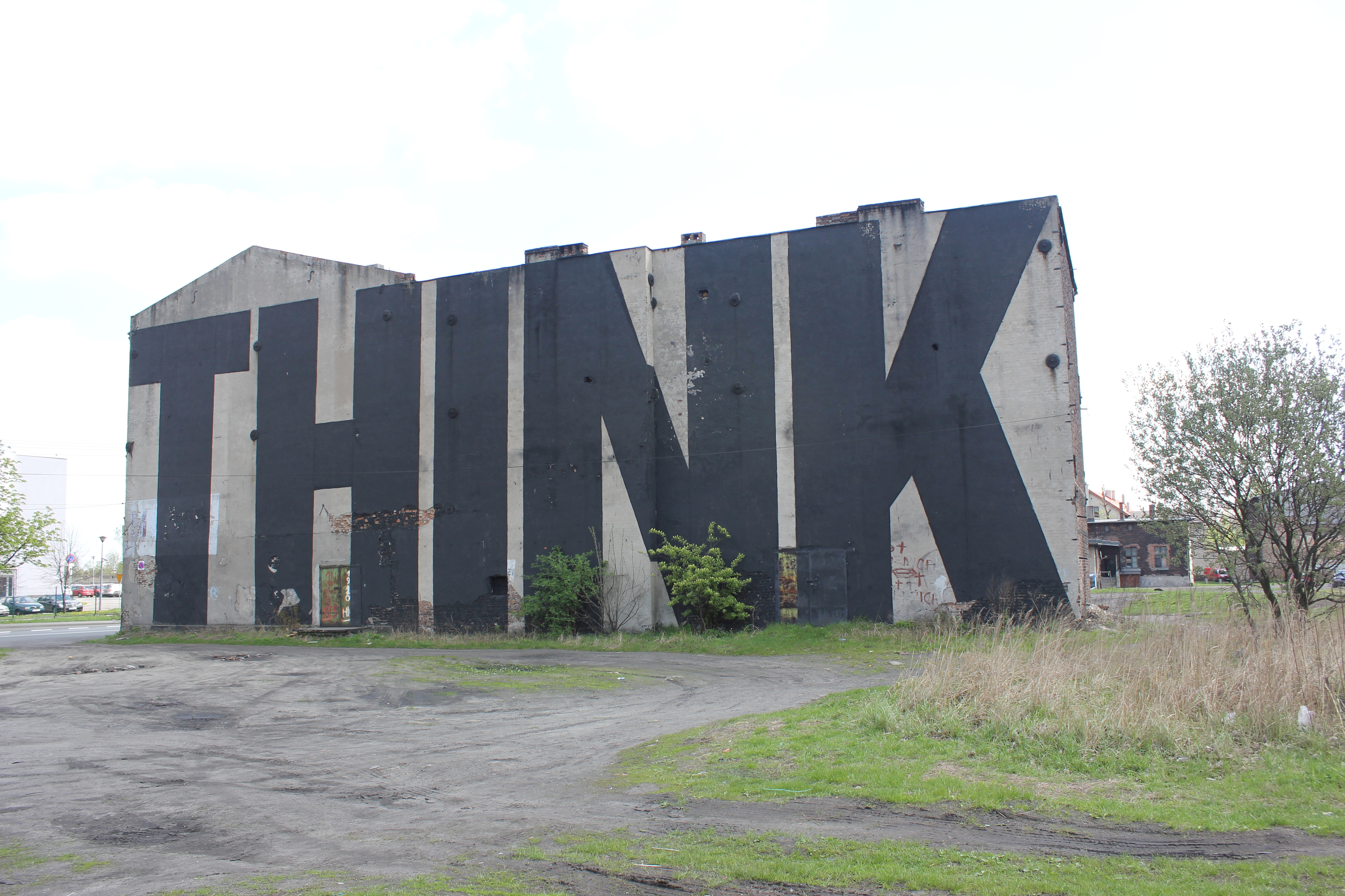 Katowice - mural "Think" by SpY in Krakowska str.